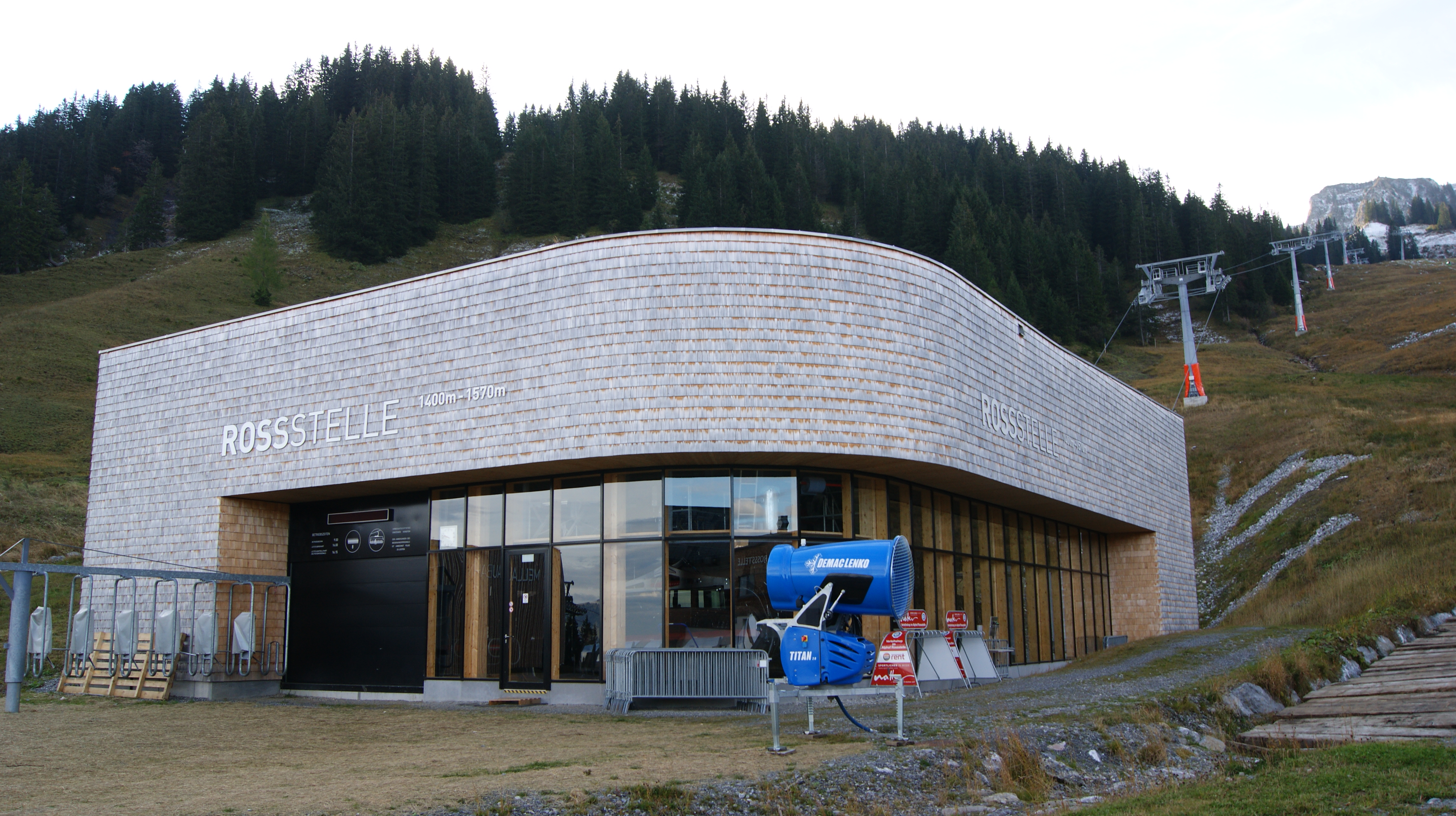 Lower station of the chair lift "Rossstelle" in Mellau, Vorarlberg, Austria.